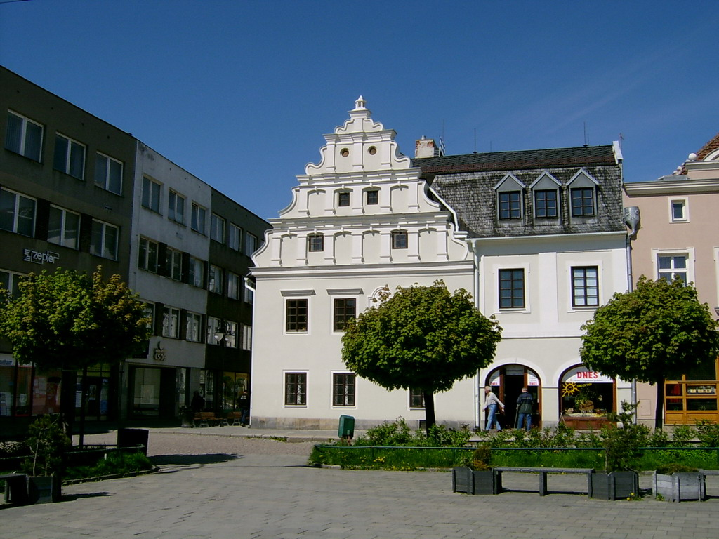 Gabriel's House from 16th century in Bruntál, Czech Republic.